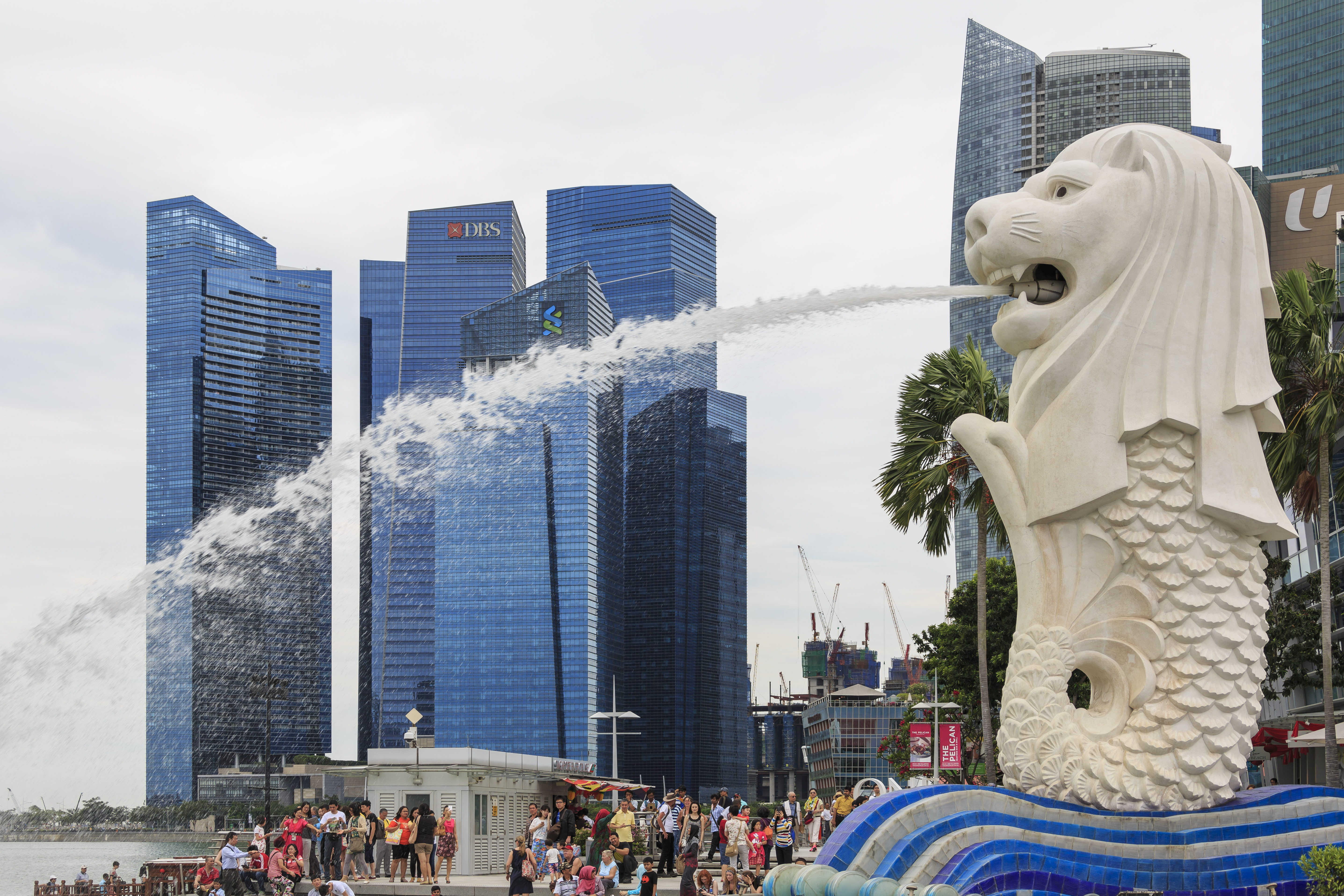 Singapore: The Merlion Statue at Marina Bay